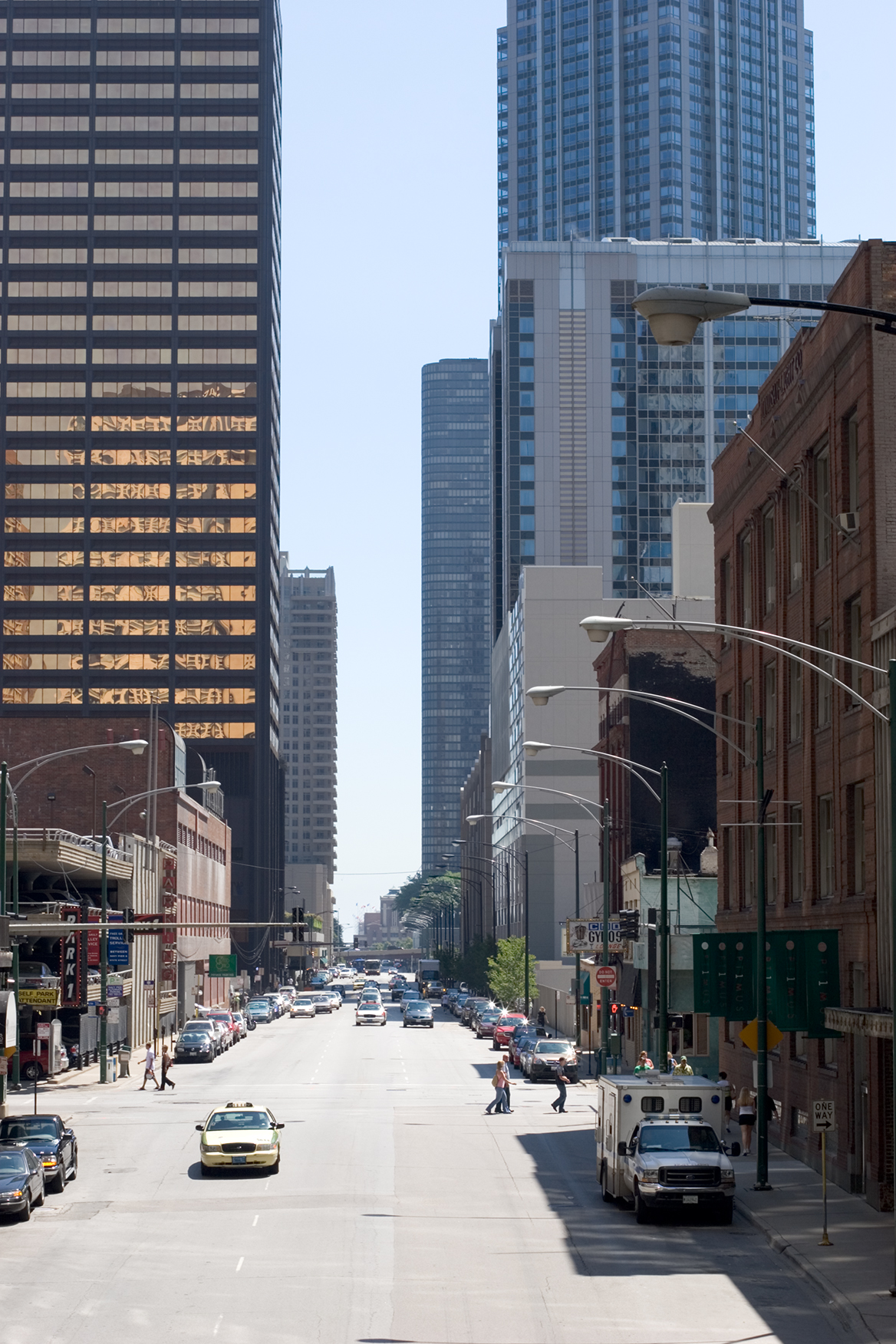 Chicago building, IL, USA.